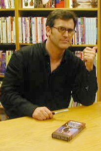 Bruce Campbell signing a VHS copy of The Evil Dead at a fan meet and greet